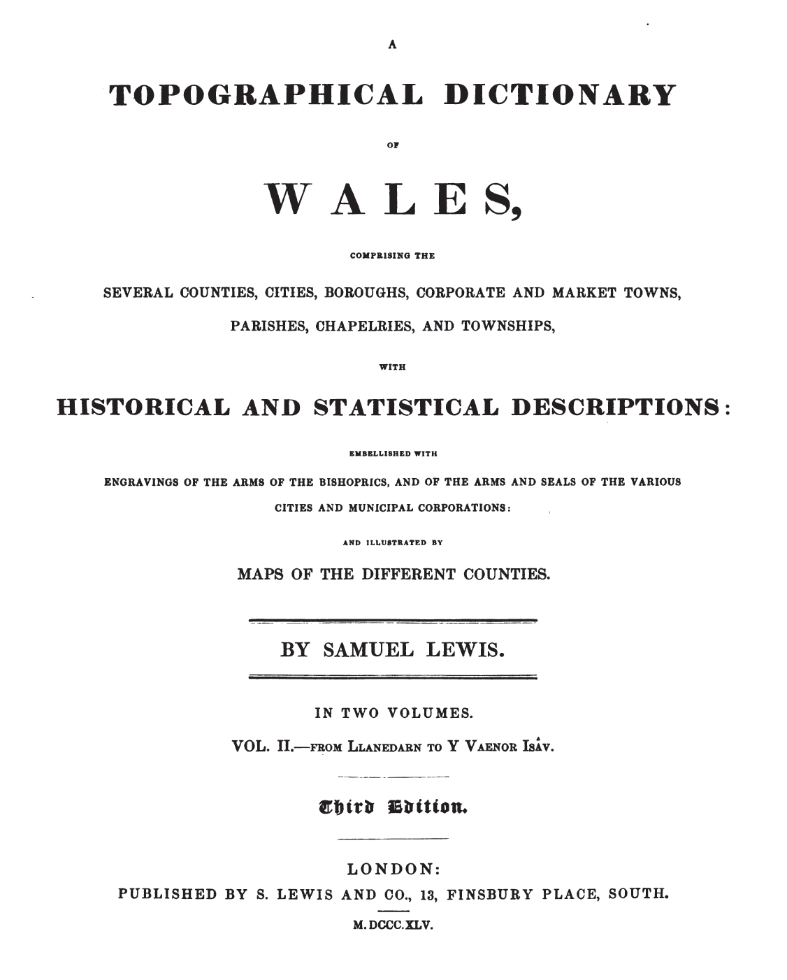 Title page from "A topographical dictionary of Wales" volume II, published 1845 by Samuel Lewis. Transcript as follows: A TOPOGRAPHICAL DICTIONARY OF WALES, COMPRISING THE SEVERAL COUNTIES, CITIES, BOROUGHS, CORPORATE AND MARKET TOWNS, PARISHES, CHAPELRIES, AND TOWNSHIPS, WITH HISTORICAL AND STATISTICAL DESCRIPTIONS; EMBELLISHED WITH ENGRAVINGS OF THE ARMS OF THE BISHOPRICS, AND OF THE ARMS AND SEALS OF THE VARIOUS CITIES AND MUNICIPAL CORPORATIONS; AND ILLUSTRATED BY MAPS OF THE DIFFERENT COUNTIES. BY SAMUEL LEWIS. IN TWO VOLUMES. VOL. II—FROM LLANEDARN TO Y VAERNOR ISAV. THIRD EDITION. LONDON: PUBLISHED BY S. LEWIS AND CO., 13, FINSBURY PLACE, SOUTH. M.DCCC.XLV.